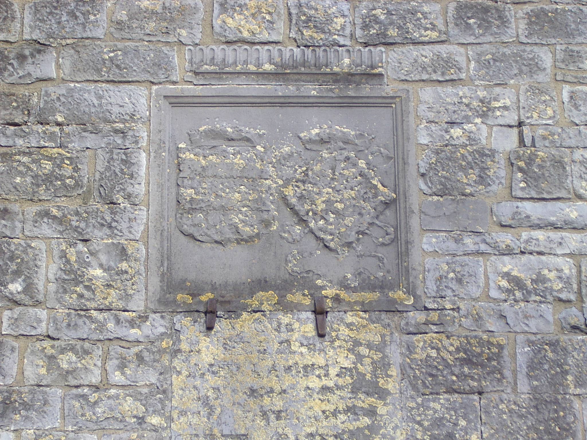 Saint-Jean-Baptiste church Hierges